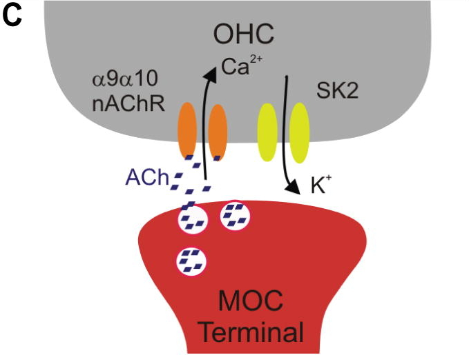 Schematics Showing the Central Origin (A) and Peripheral Projections (B) of the MOC Fibers and the Cholinergic Synapse onto OHCs in the Mature Organ of Corti (C) MOC efferent neurons are located in the superior olivary complex of the brainstem and project to the cochlea, where they make direct synaptic contacts at the base of the OHCs. At this synapse, ACh is released. It binds to α9α10 receptors present at the OHCs, leading to Ca2+ influx and the subsequent activation of Ca2+-dependent SK2 K+ channels and hair cell hyperpolarization. The black arrow in (A) indicates the place of electrical stimulation to activate the MOC fibers. The white arrow in (B) indicates the afferent fibers that bring the information from the IHCs to the central nervous system, and the red arrow indicates the MOC fibers. For approximately 10 d after birth (before the onset of hearing), cholinergic efferents temporarily synapse directly with IHCs (not shown in the figure) and provide a useful experimental target for the study of altered α9α10 receptors.